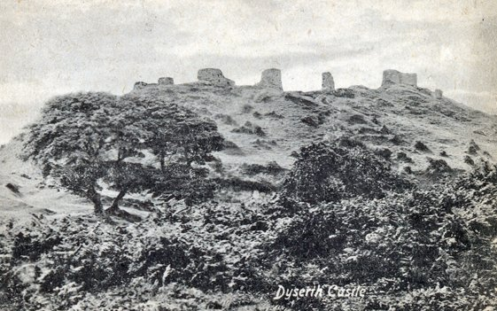 Dyserth Castle from a postcard